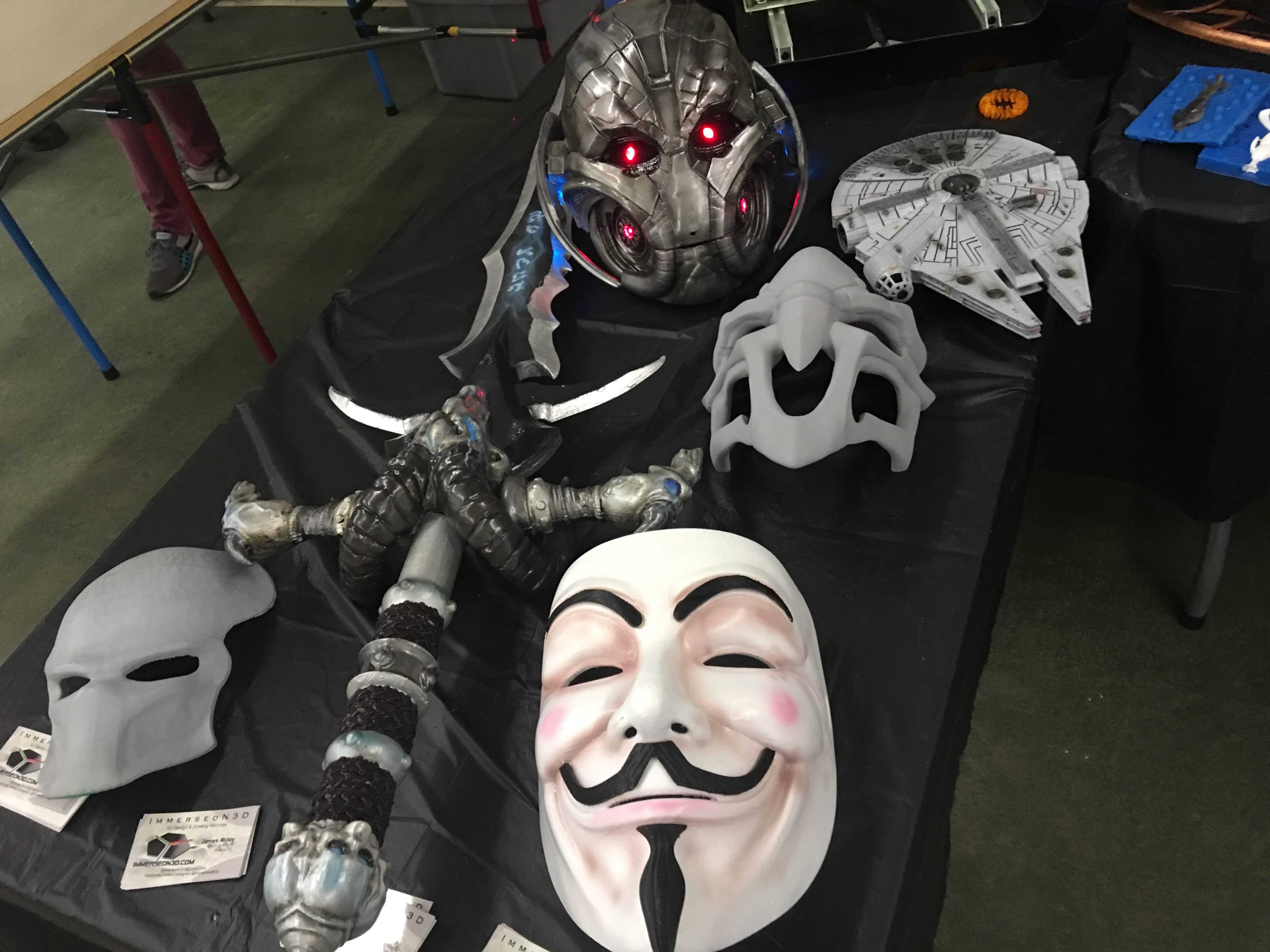 products of via 3D printer